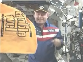 Expedition 18 Commander Mike Fincke, a Pittsburgh native, showed his true colors as he offered encouragement for the Pittsburgh Steelers.